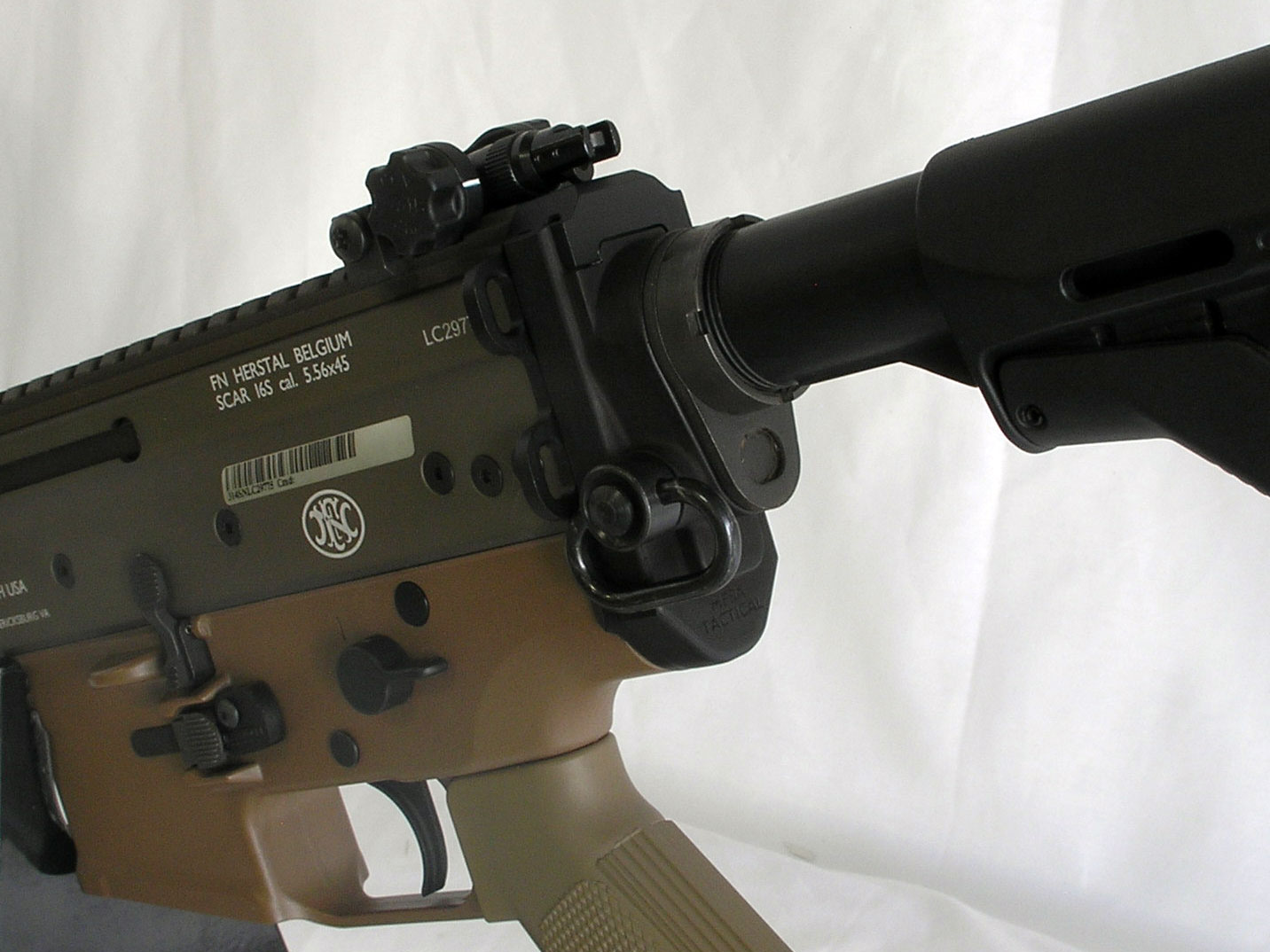 The second version of the stock adapter for the FN SCAR, this one (probably the final one) includes ambidextrous steel push button sling swivel flush cups.